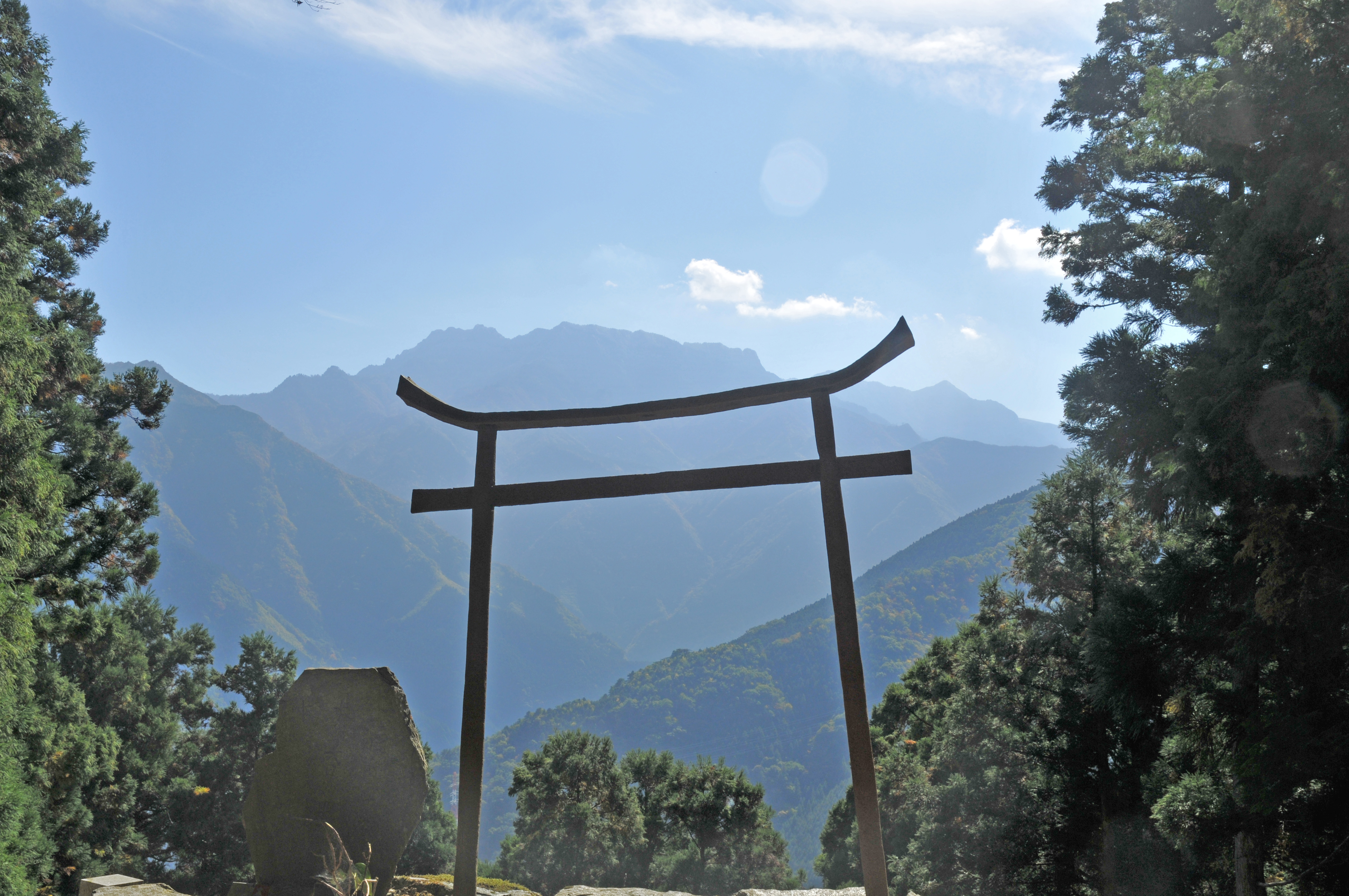 Kane-no-torii and Mt.Ishizuchi view, Hoshigamori